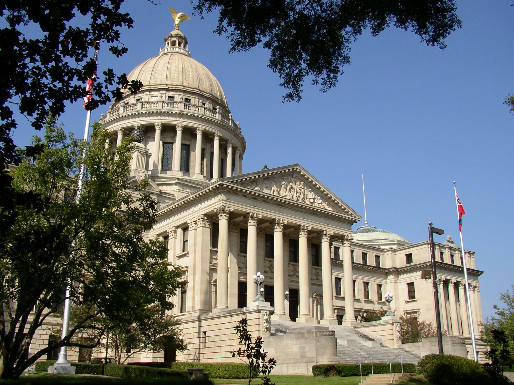 Mississippi "New" State Capitol Building in Jackson